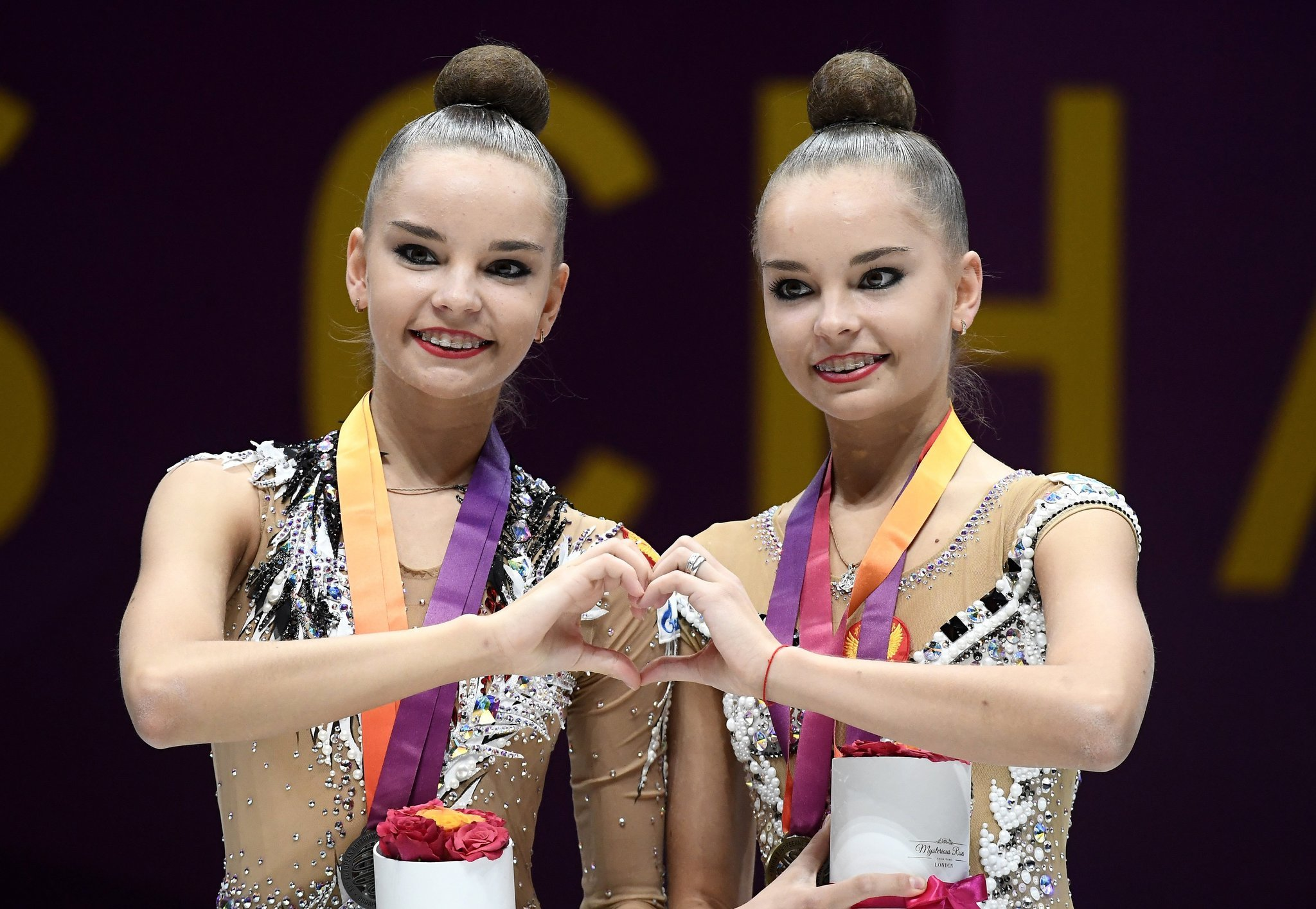 Russian twins Dina and Arina Averina at the 2017 Rhythmic Gymnastics European Championships in Budapest